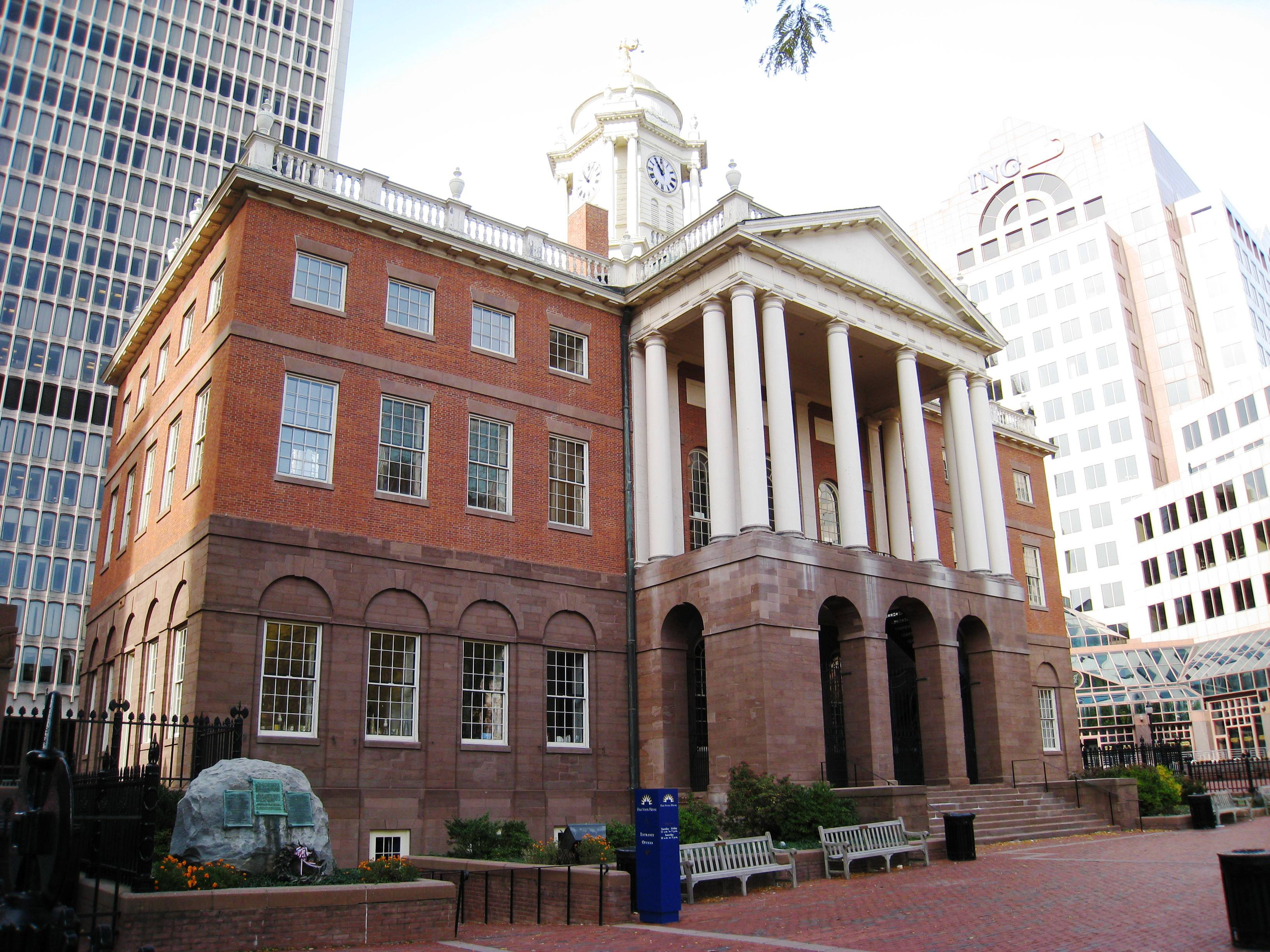 Front facade - Old State House, Hartford, Connecticut, USA. Charles Bulfinch (1763-1844), architect. This building was completed in 1796.